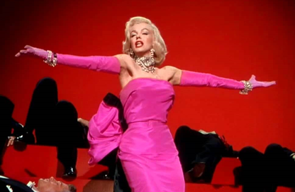 Cropped screenshot of Marilyn Monroe in the trailer for the film Gentlemen Prefer Blondes